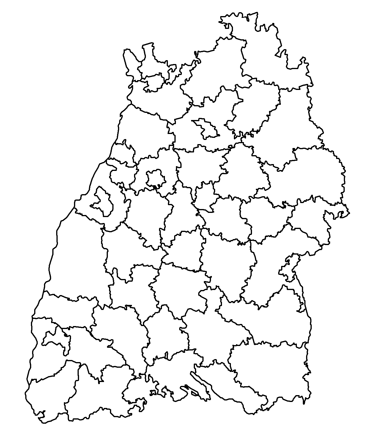 Map of the counties in Baden-Württemberg since 1973